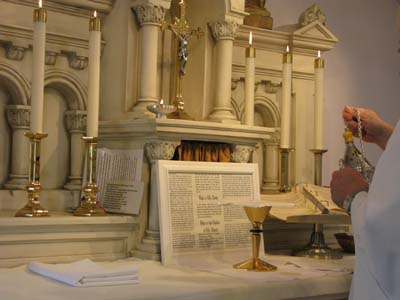 At the "second censing" -- Mass at St Mychal Judge Old Catholic Church (Dallas TX USA) -- Archbishop Wynn Wagner, celebrant.